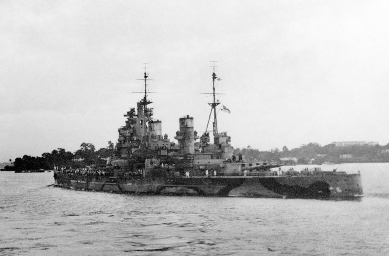 The Royal Navy battleship HMS Prince of Wales leaving Singapore on 8 December 1941 for her final cruise. She was sunk by Japanese aircraft on 10 December.